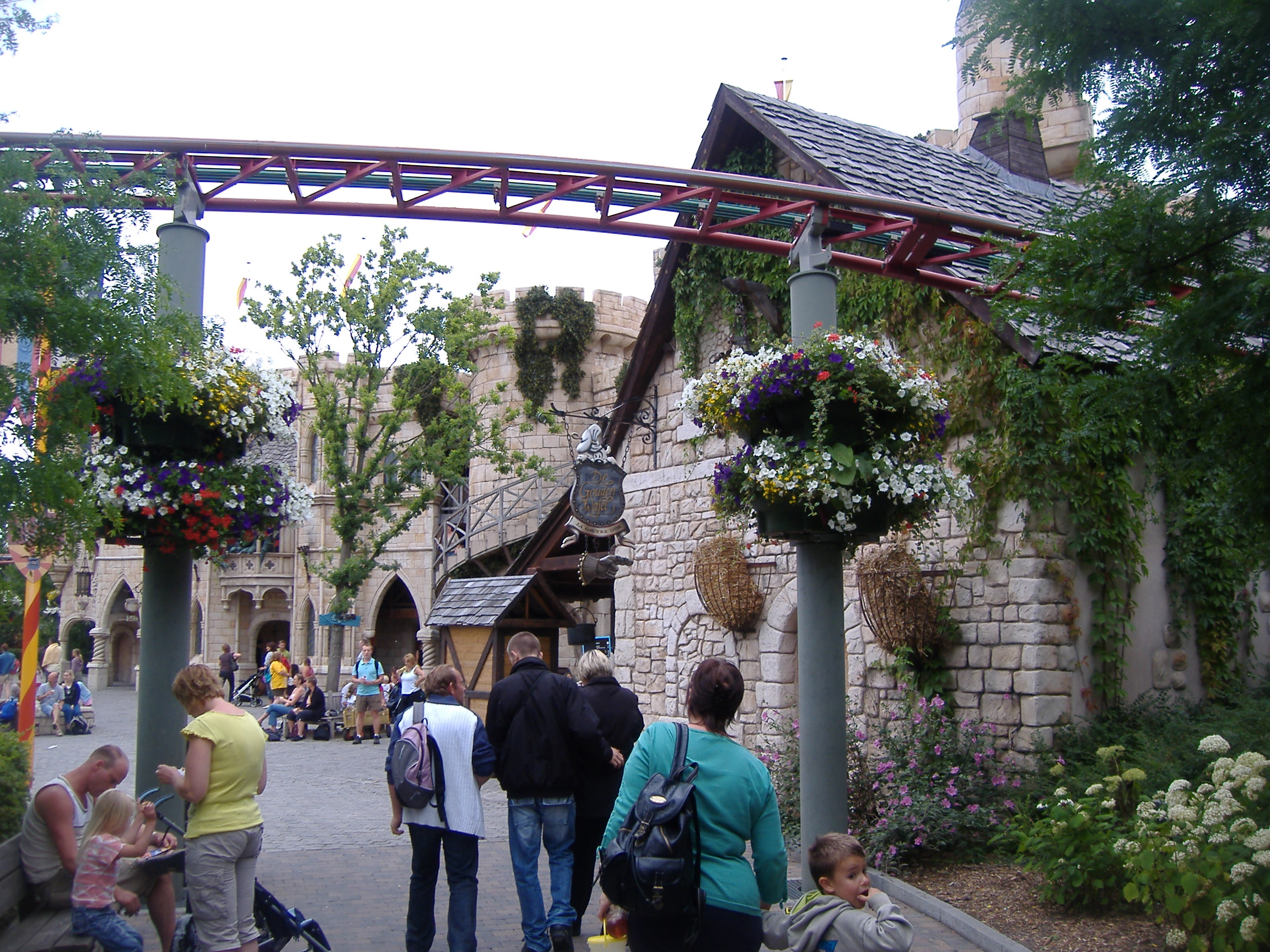 Plopsaland